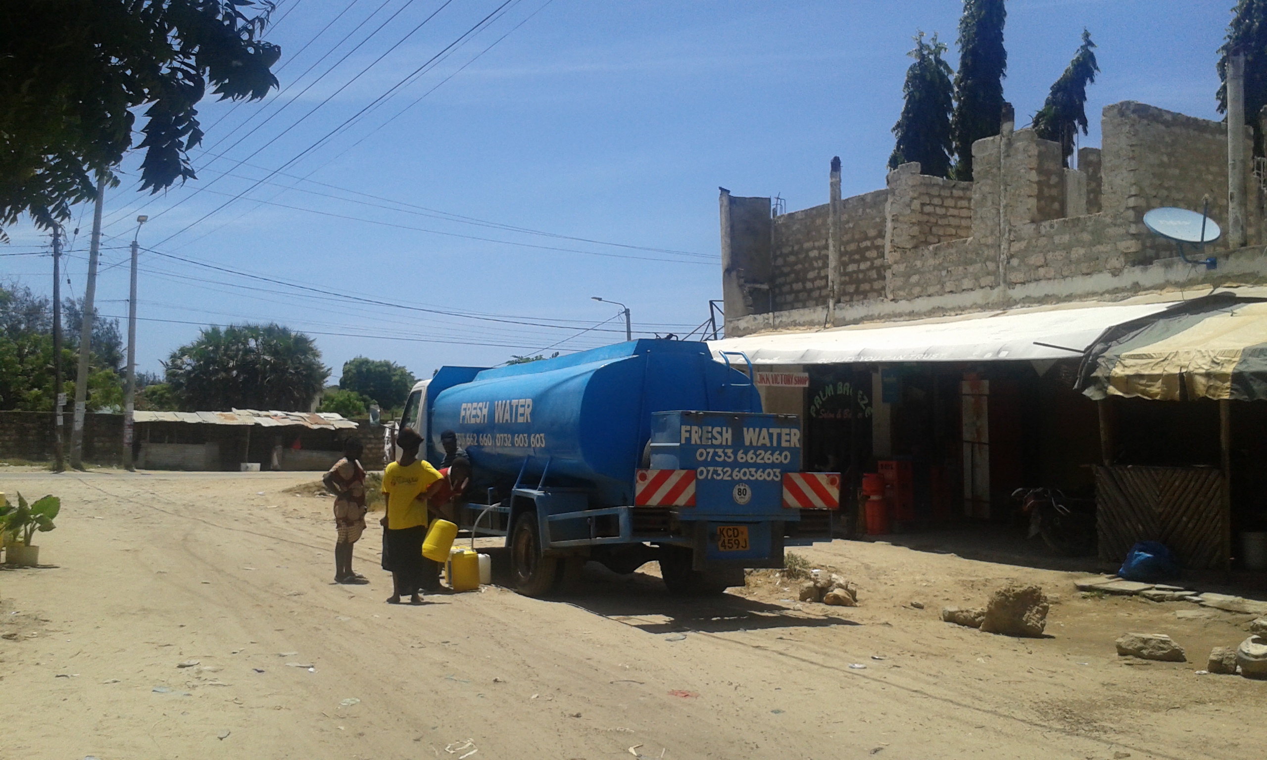 Fresh water tank vehicle in Mtwapa, Mombasa, Kenya This is an image with the theme "Africa on the Move or Transport" from: Kenya